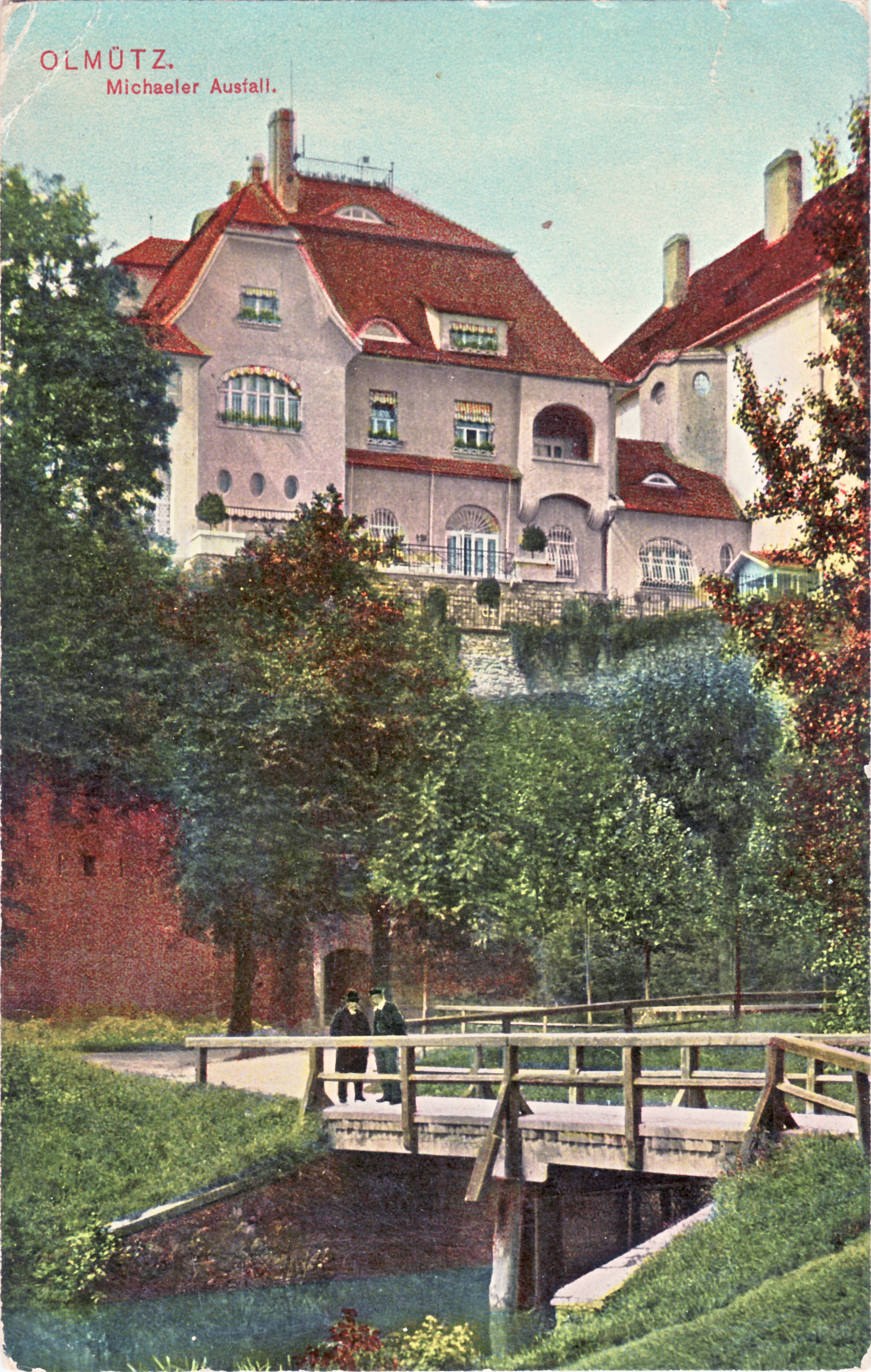 Villa Primavesi in Olomouc on a historical postcard.